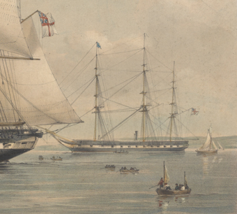 H.M. 50 gun frigate Phaeton constructed by Mr Joseph White Note: HMS Amphion shown as 36 guns, she was reduced to 30 in 1848, So image is 1848, though published 1850 Hand-coloured. H.M. 50 gun frigate Phaeton constructed by Mr Joseph White